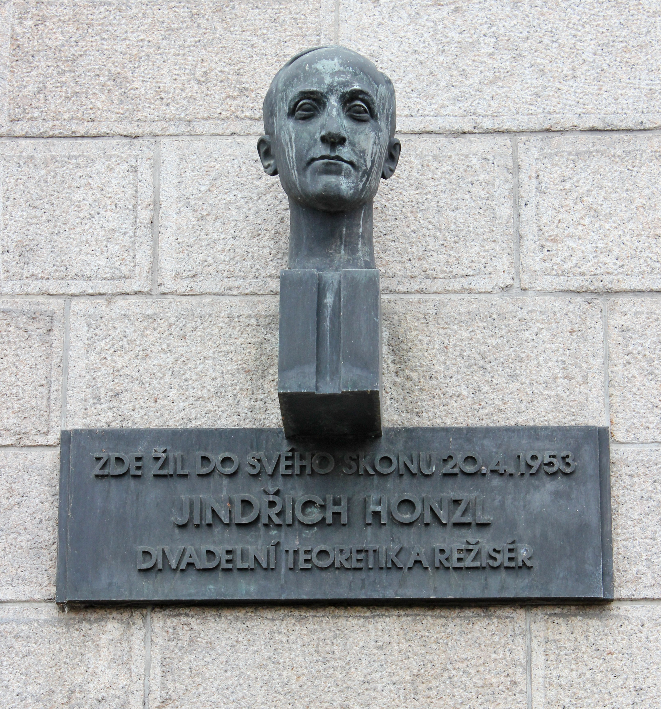 Fritz Lehmann: apartment block, Prague 1, Lannova 8. Plaque to Jindřich Honzl.